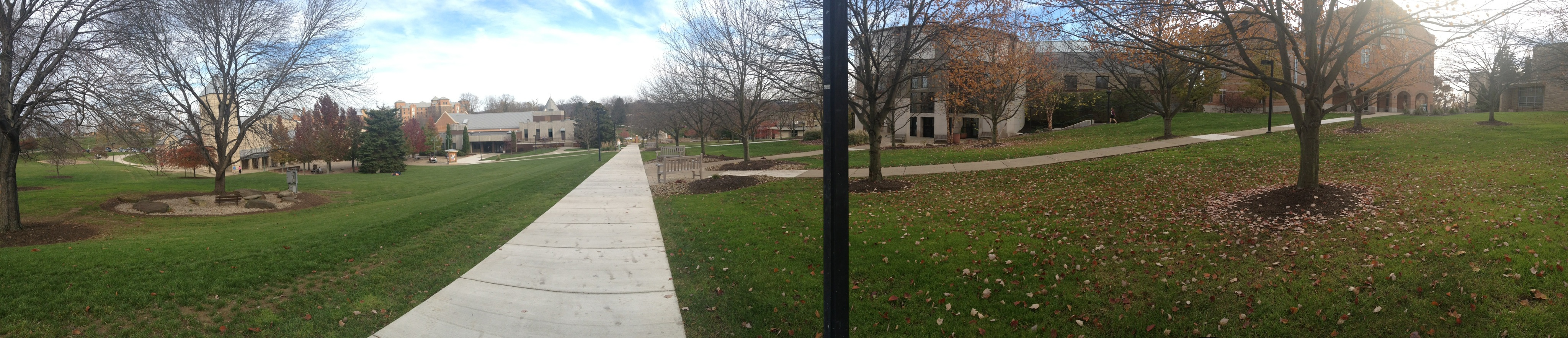 A panorama photo of the campus, Franciscan University of Steubenville, in Steubenville, Ohio, United States.